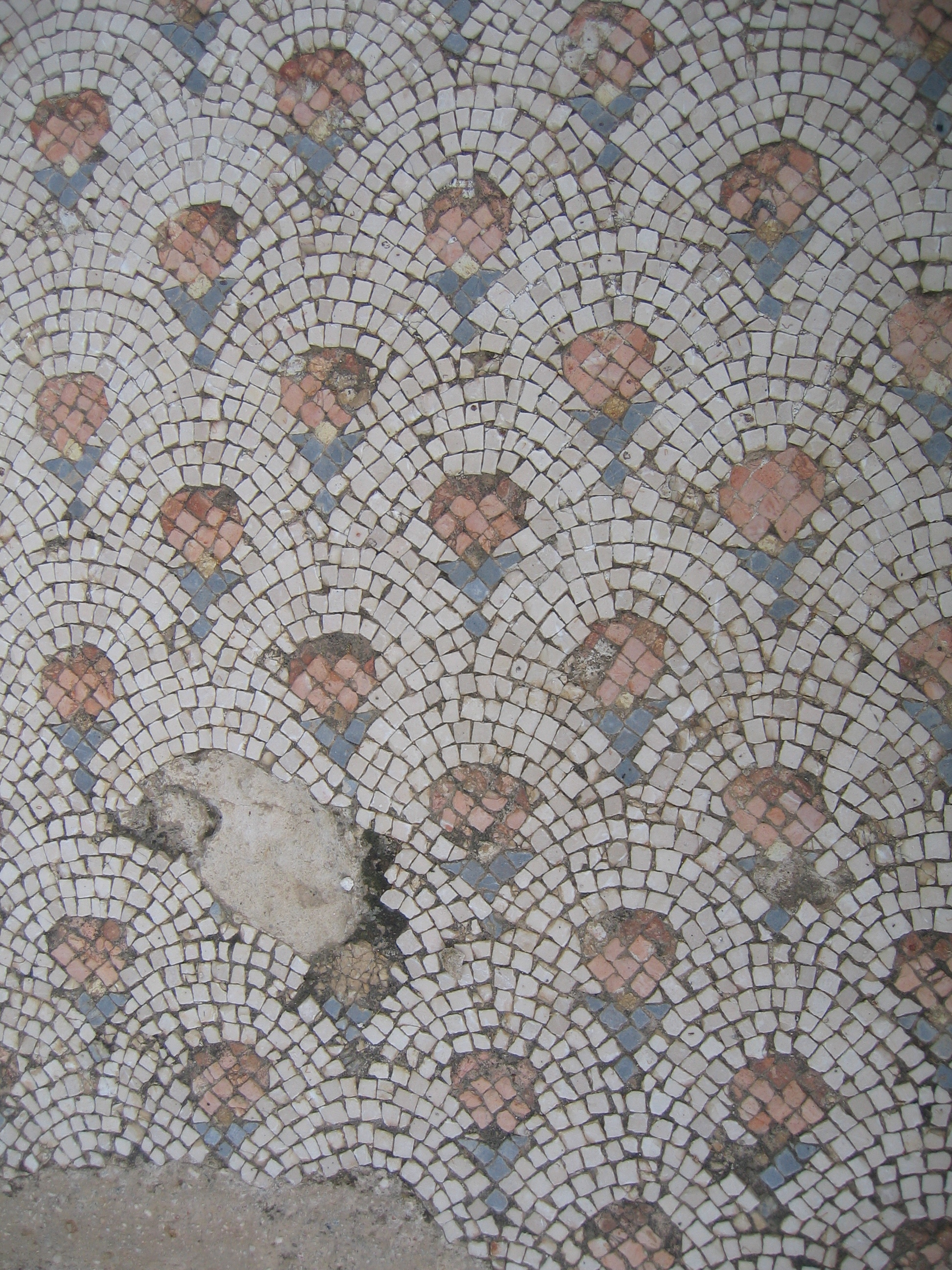 Kursi, Israel